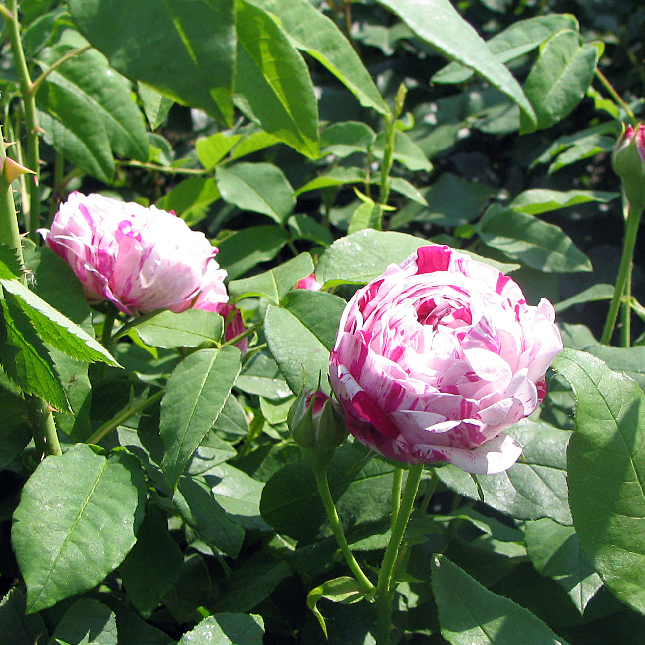 Burbon Rosa 'Variegata de Bologna' (Rosarium Kis, Serbia)